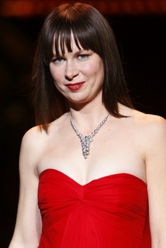 Mary Lynn Rajskub at The Heart Truth Fashion Show 2008